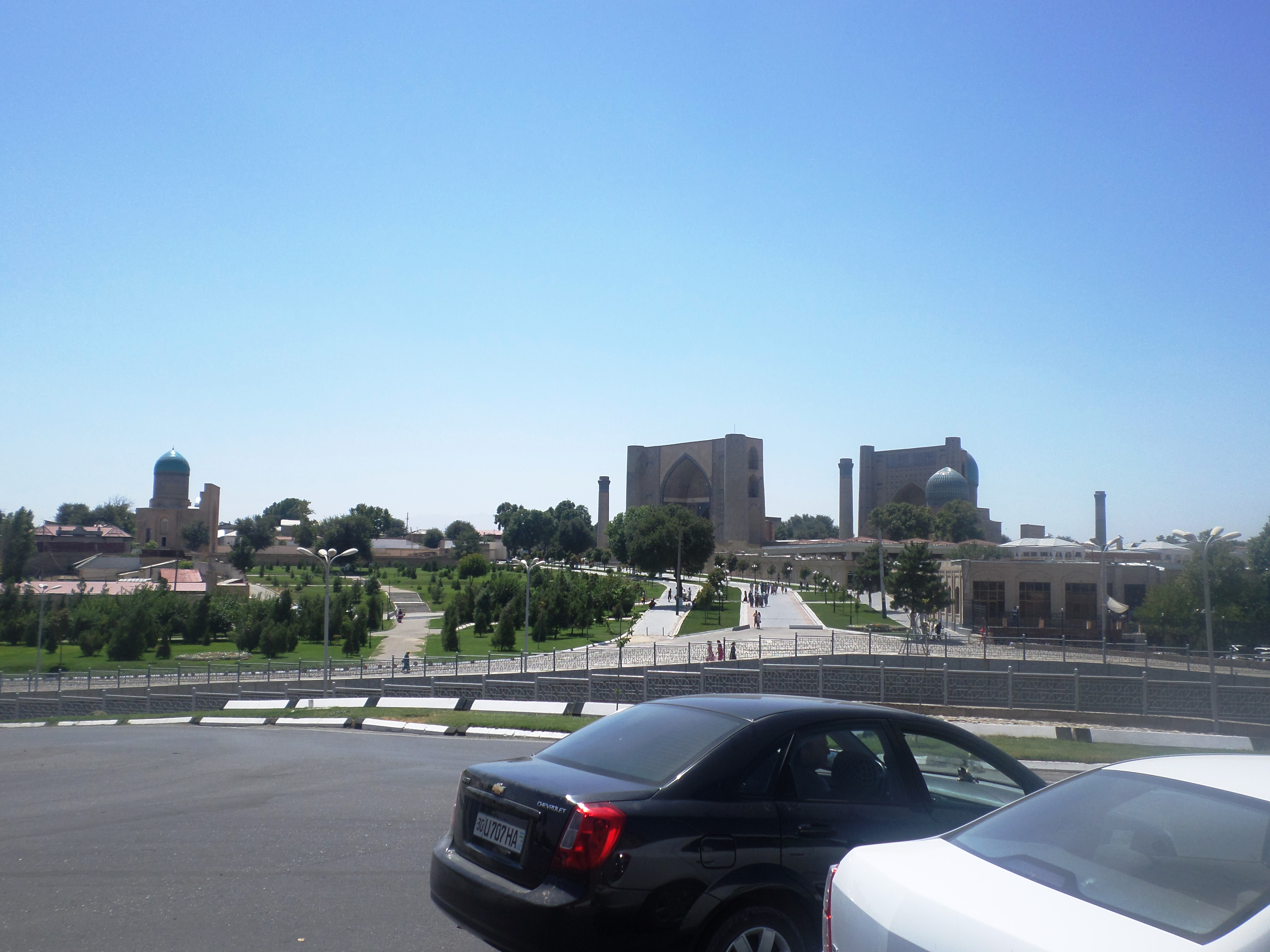 Avenues of modern Samarkand